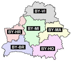 Map of Belarus showing oblasts with ISO 3166-2:BY codes